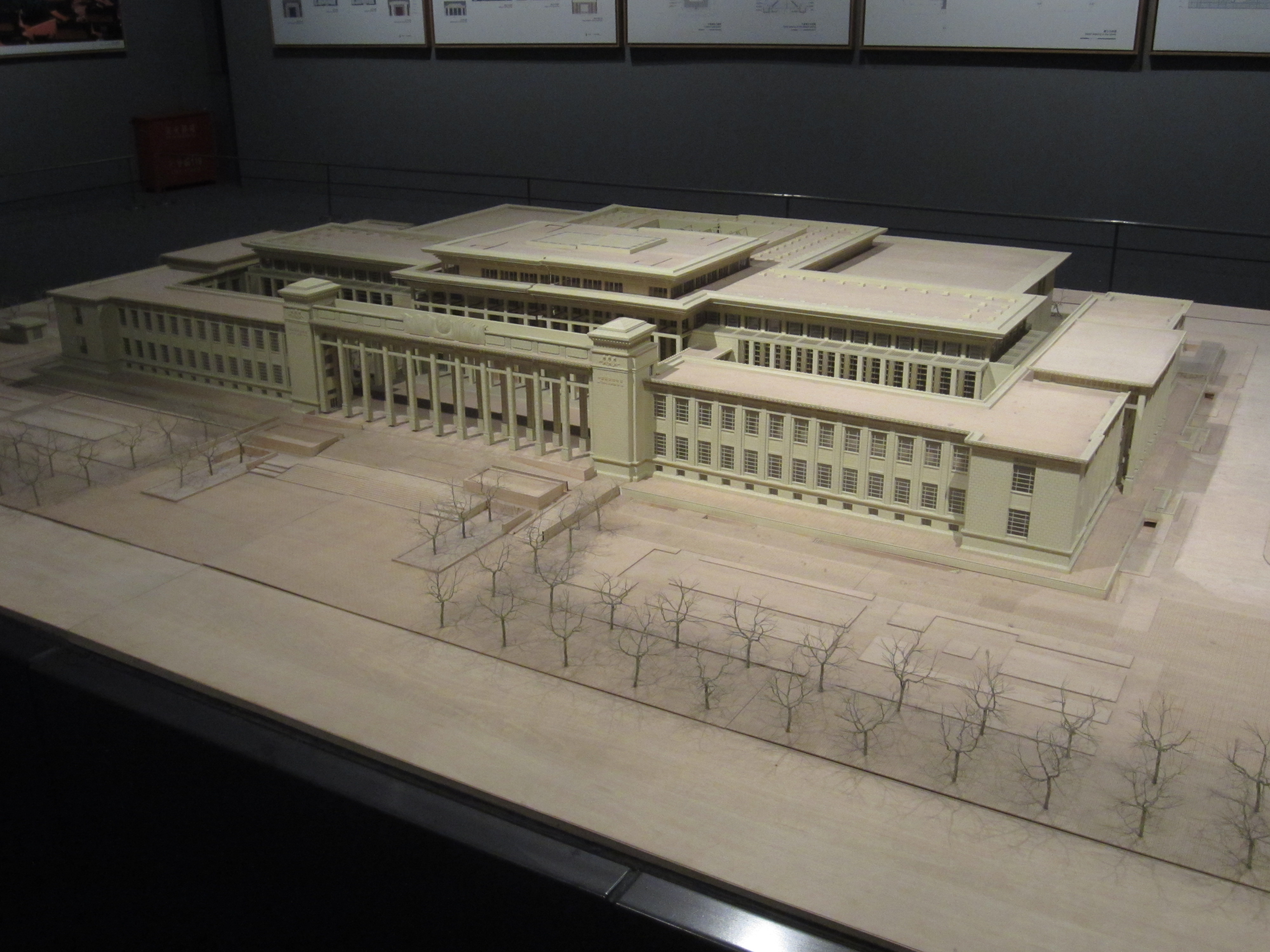 Beijing (November 2016)